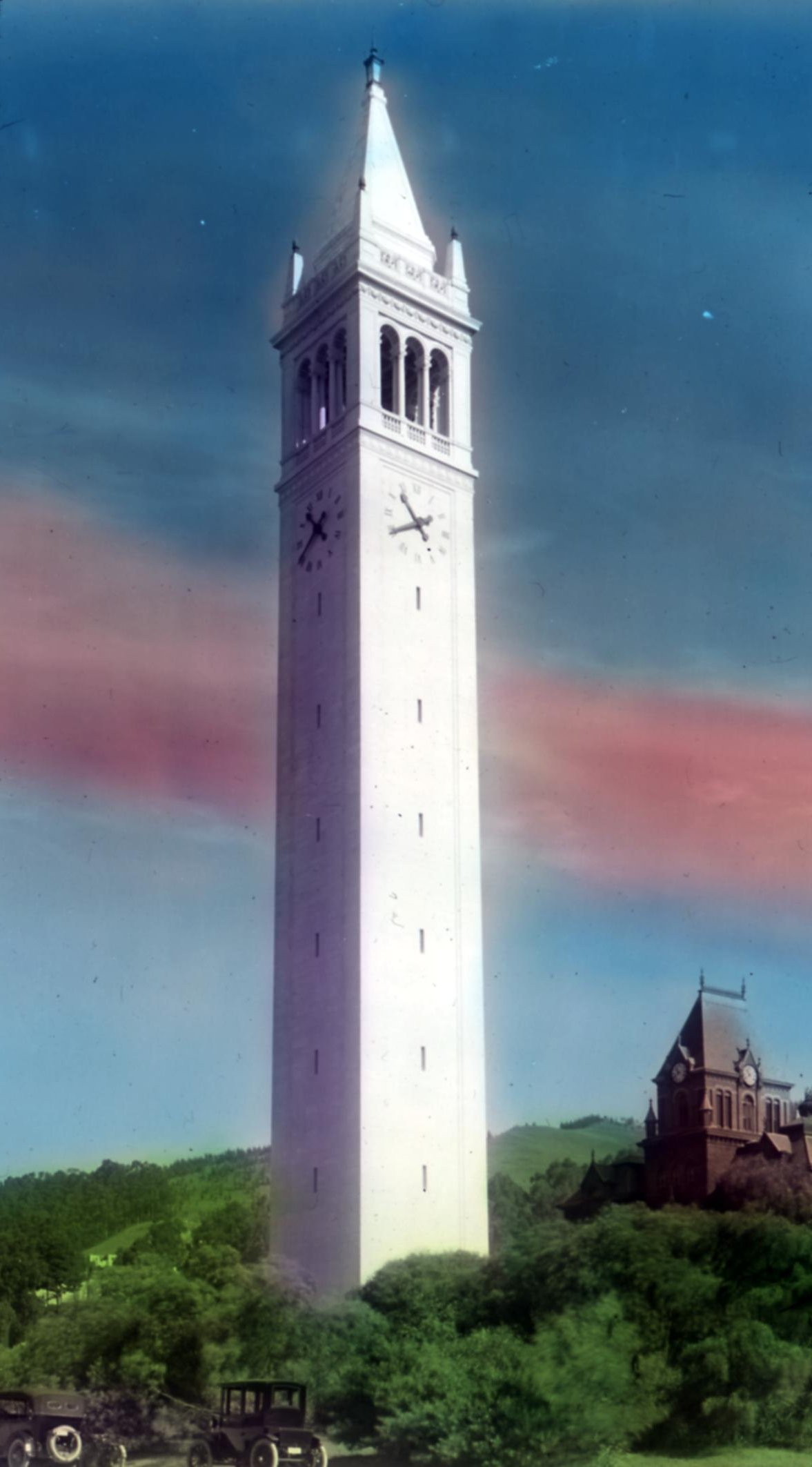 Original Collection: Visual Instruction Department Lantern Slides Item Number: P217:set 023 020 You can find this image by searching for the item number by clicking here. Want more? You can find more digital resources online. We're happy for you to share this digital image within the spirit of The Commons; however, certain restrictions on high quality reproductions of the original physical version may apply. To read more about what “no known restrictions” means, please visit the Special Collections & Archives website, or contact staff at the OSU Special Collections & Archives Research Center for details.